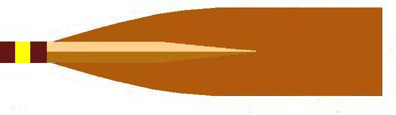 Blade colours of Skiff Club